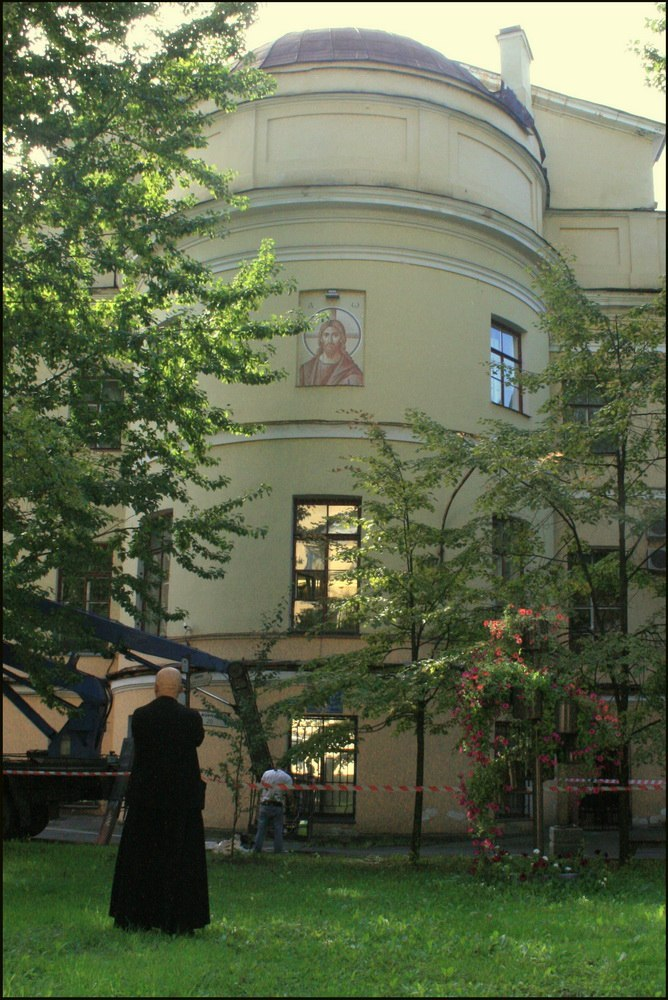 Храм РГПУ им. А.И. Герцена